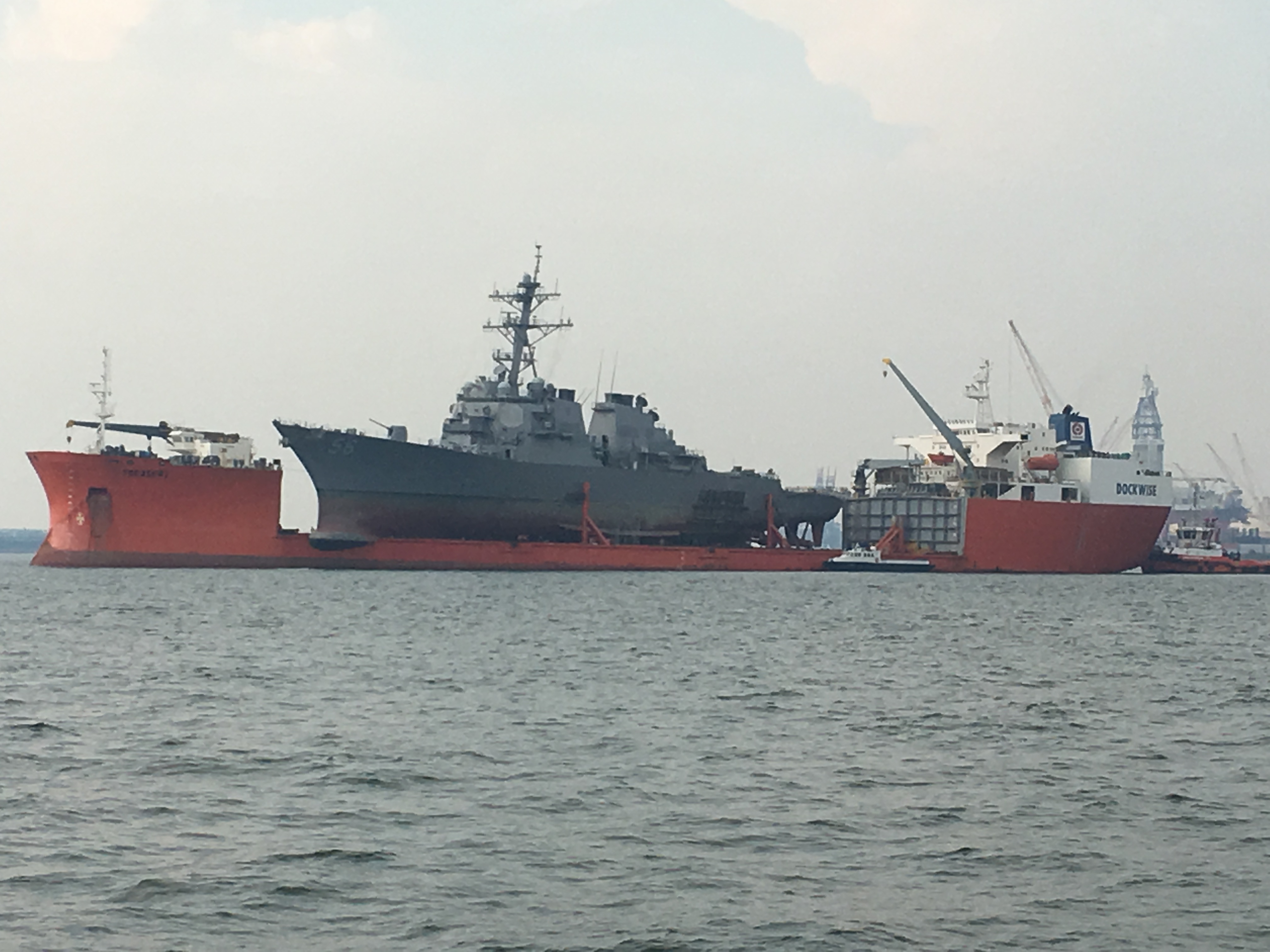 171007-N-N2201-001CHANGI, Singapore (Oct. 7, 2017) The Arleigh Burke-class guided-missile destroyer USS John S. McCain (DDG 56) is loaded onto the heavy lift transport MV Treasure, Oct. 11, 2017. Treasure will transport John S. McCain to Fleet Activities Yokosuka for repairs. (U.S. Navy photo by Capt. Keith Lehnhardt/Released)